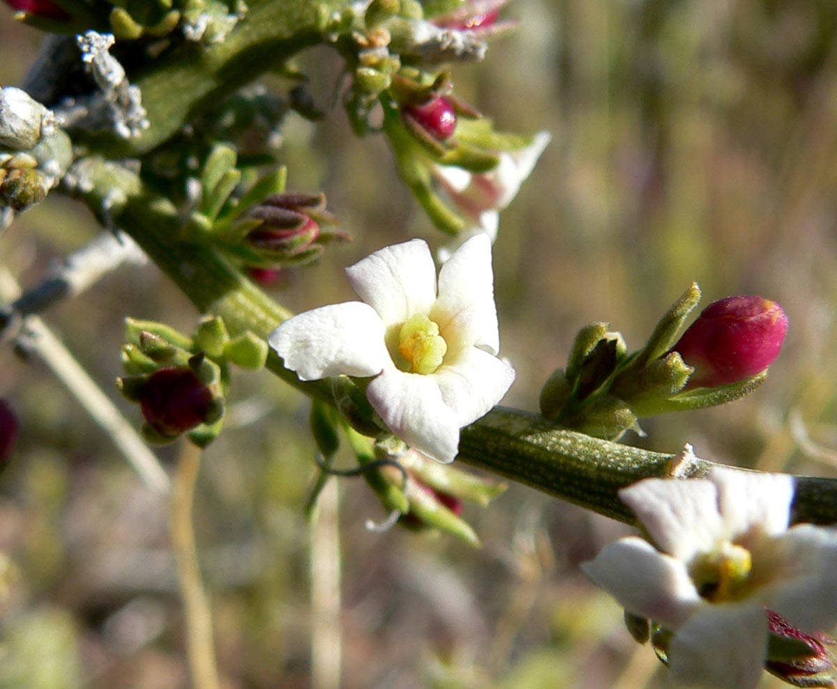 Photo of Menodora spinescens (spiny menodora) in Red Rock Canyon, Nevada